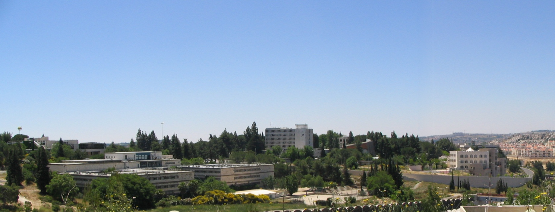 Givat Ram campus of the Hebrew University in Jerusalem קמפוס גבעת רם בירושלים